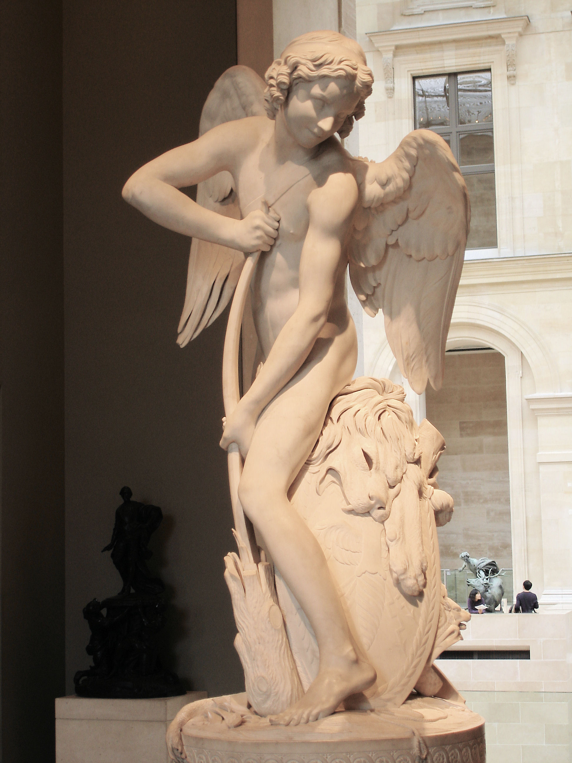 Love fashioning a bow from the club of Heracles. Marble, 1750.